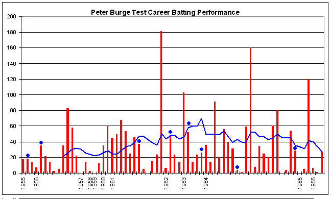 Test batting chart of Peter Burge. Red columns are the runs in the innings. Blue dots indicate not outs. Blue line is average in the last ten innings. Thanks to Raven4x4x for providing the template.